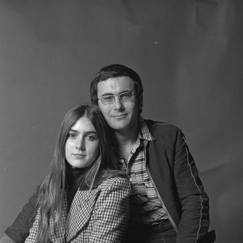 Portrait of Al Bano & Romina Power at the day of the Eurovision Song Contest 1976